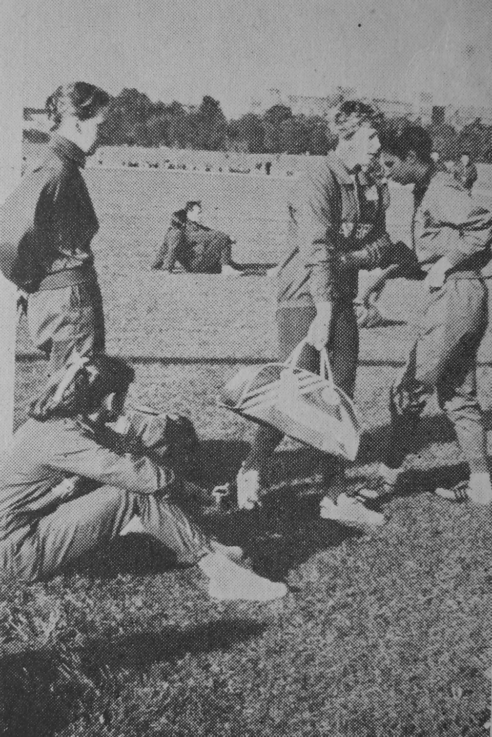 Mary Bignal-Rand in Warsaw, 1964